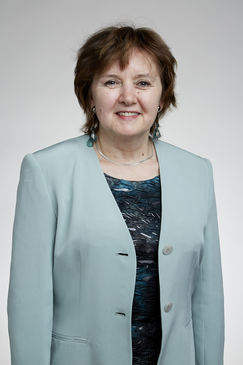 Eugenia Kumacheva is a Professor of Chemistry at the University of Toronto. Attribution: The Royal Society